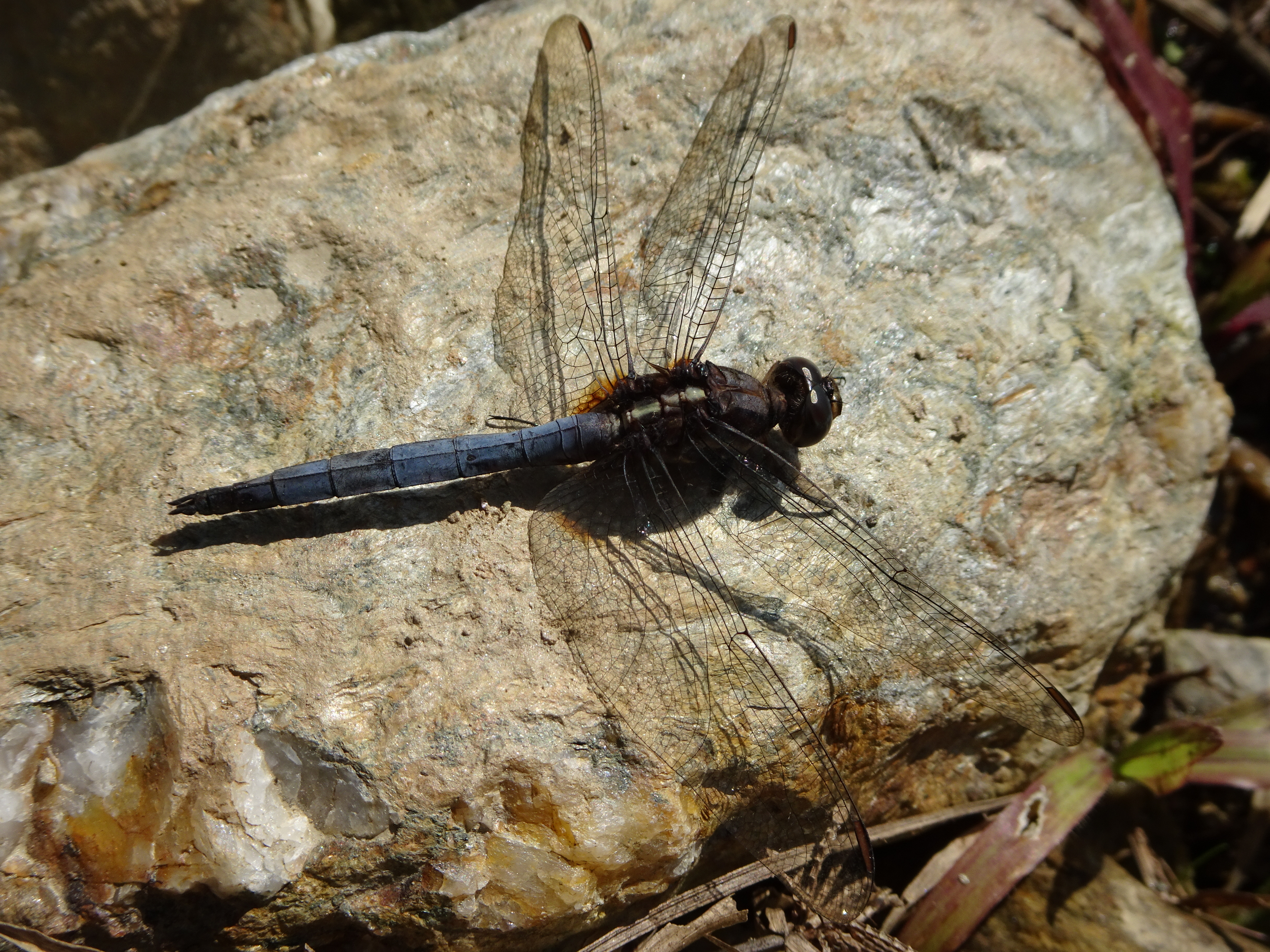 Male of an Orthetrum glaucum aka the Blue Marsh Hawk taken at Bhorletar, Lamjung